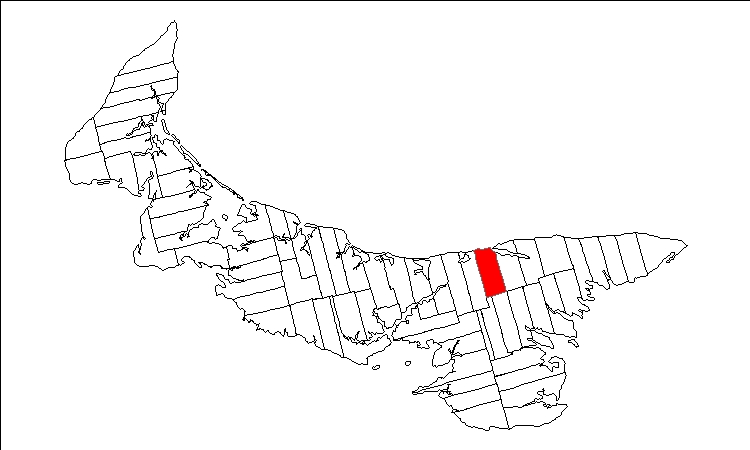 Public domain map of Prince Edward Island created by User:Plasma east with data courtesy of Geogratis, modified to show townships. Released under GFDL (self).